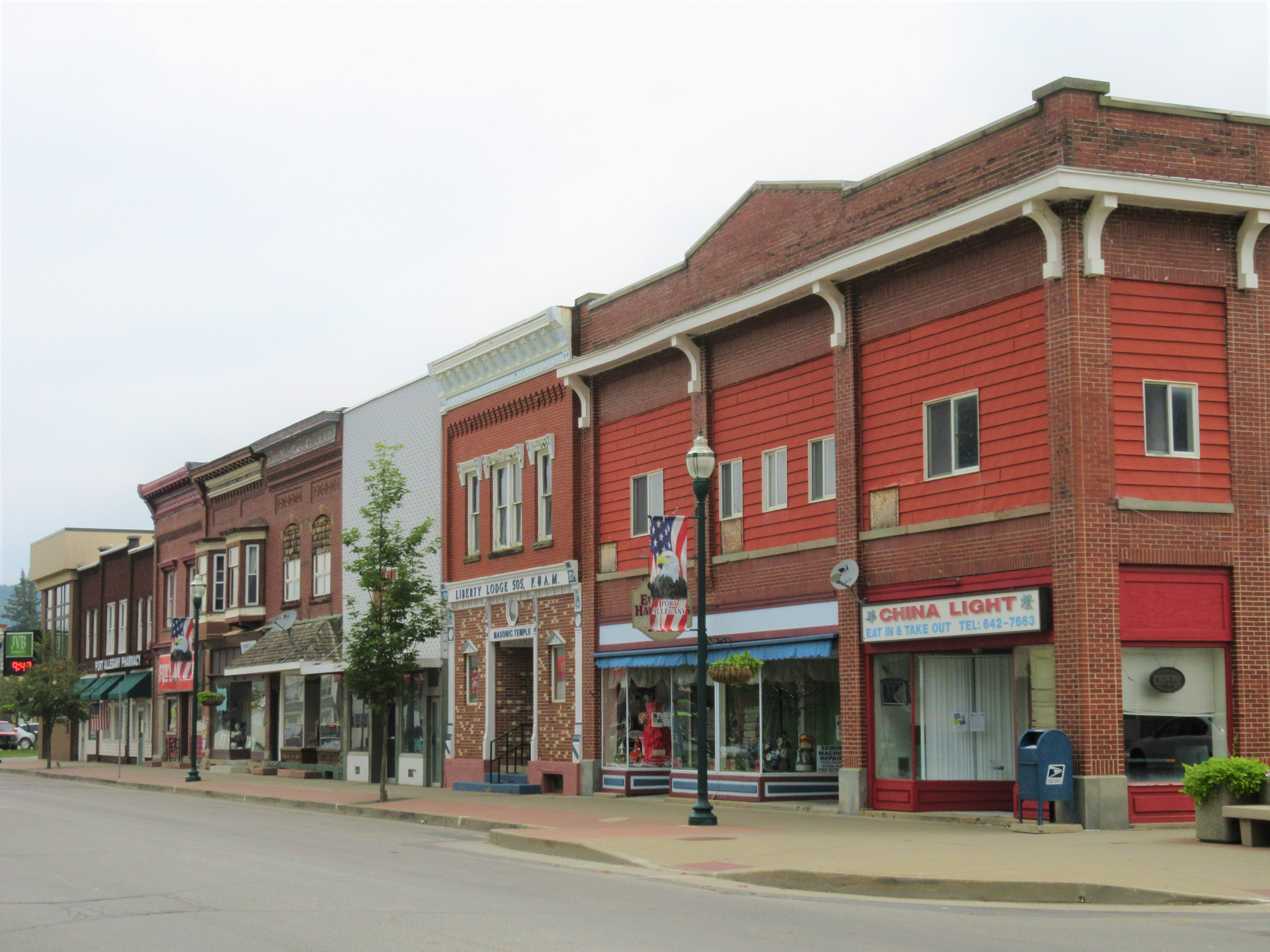 Port Allegany, Pennsylvania